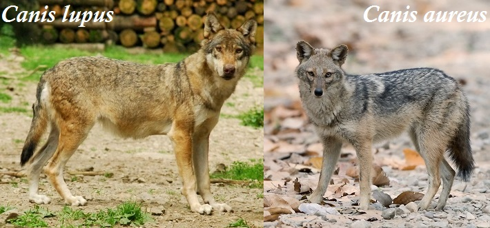 Comparative image of grey wolf and golden jackal.